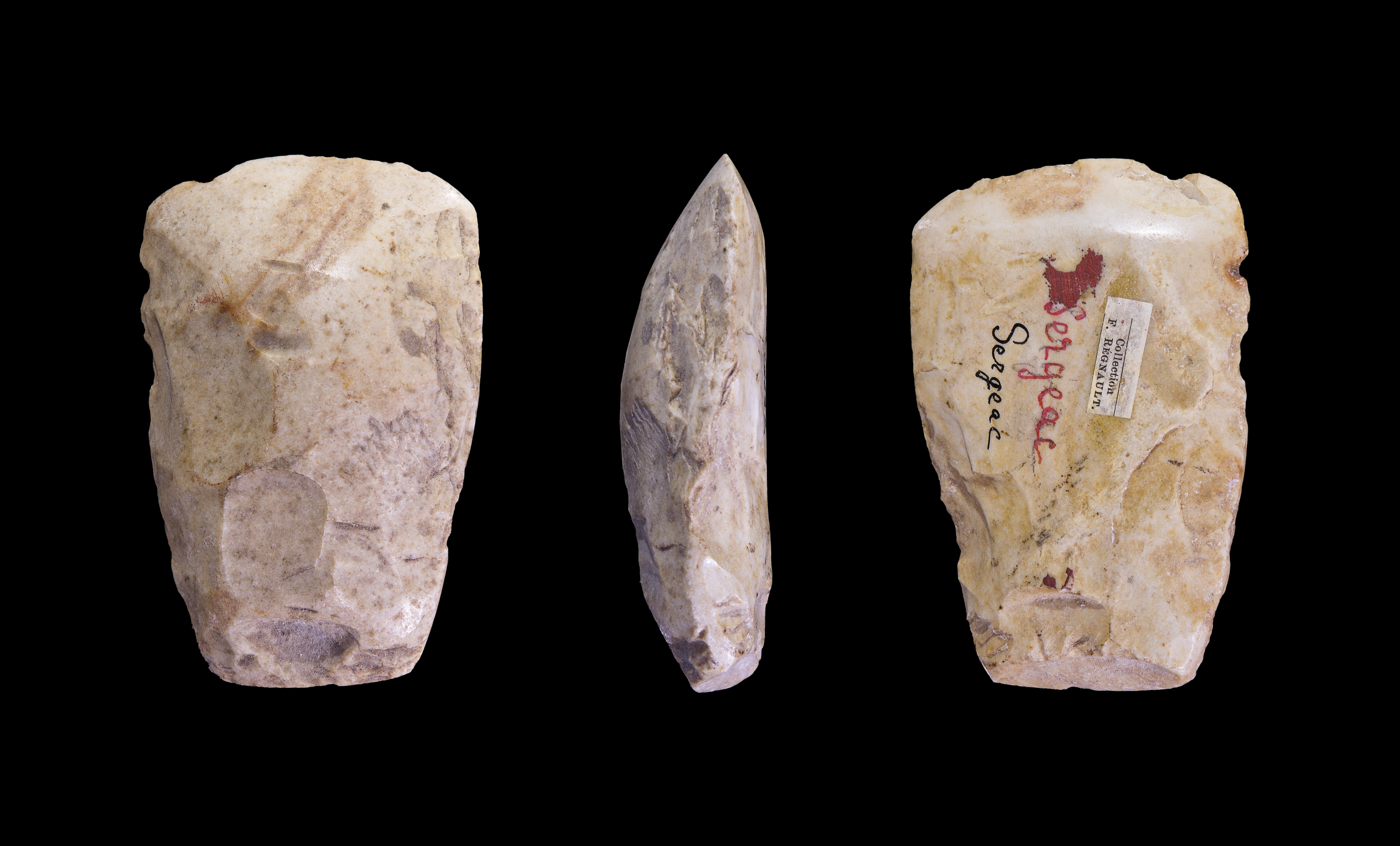 Polished ax.